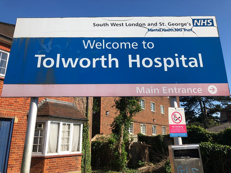 Sign at Tolworth Hospital